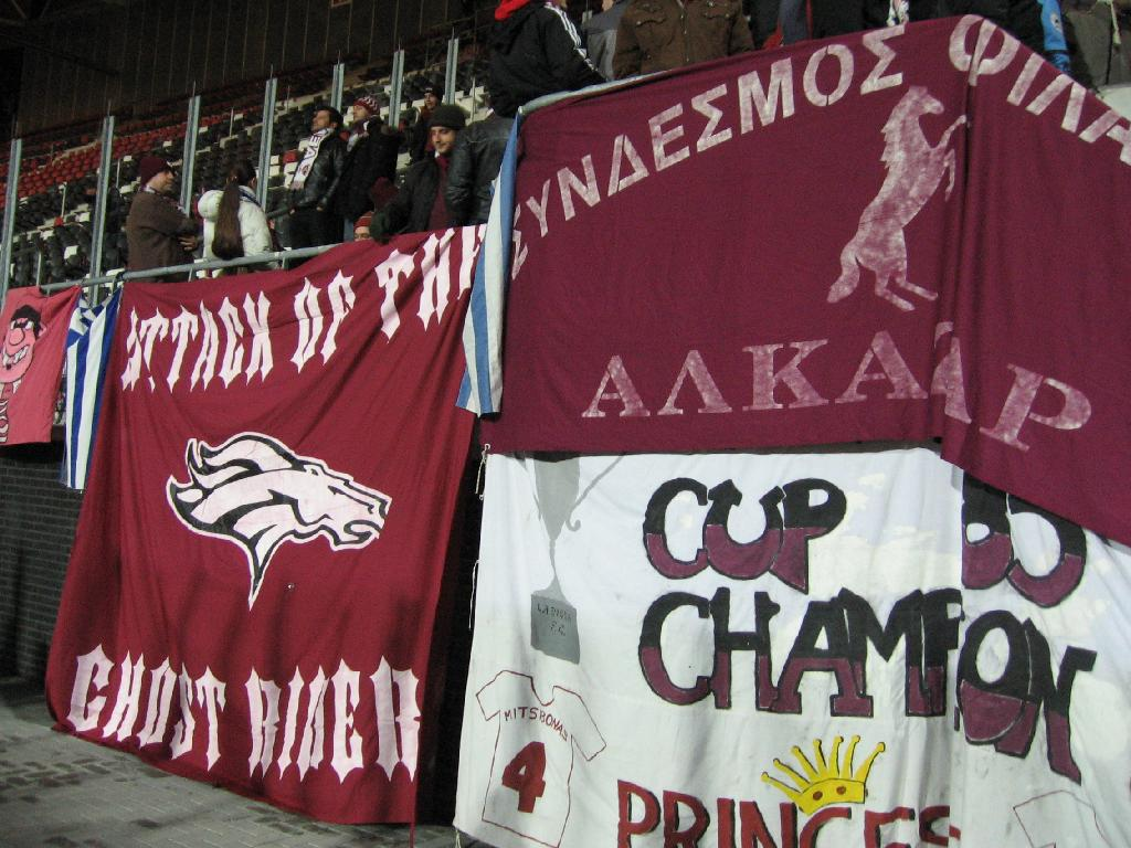 Fans of the greek football club of Larissa (AEL) during the game AZ Alkmaar - AEL